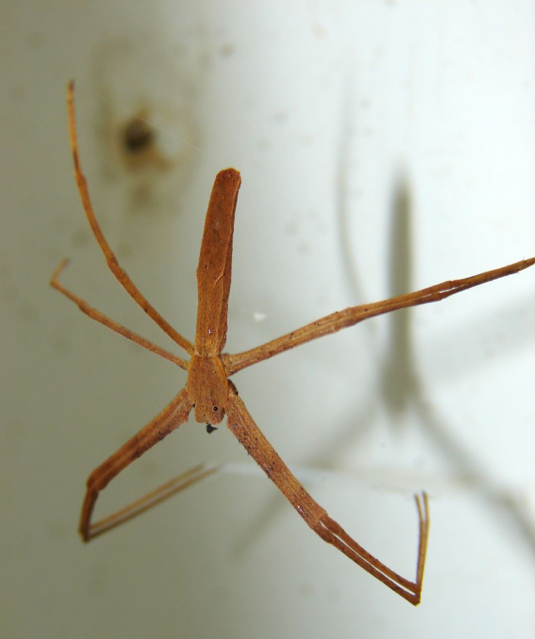 Female Deinopis subrufa (also called Rufous Net-casting Spider), a species of net-casting spiders.